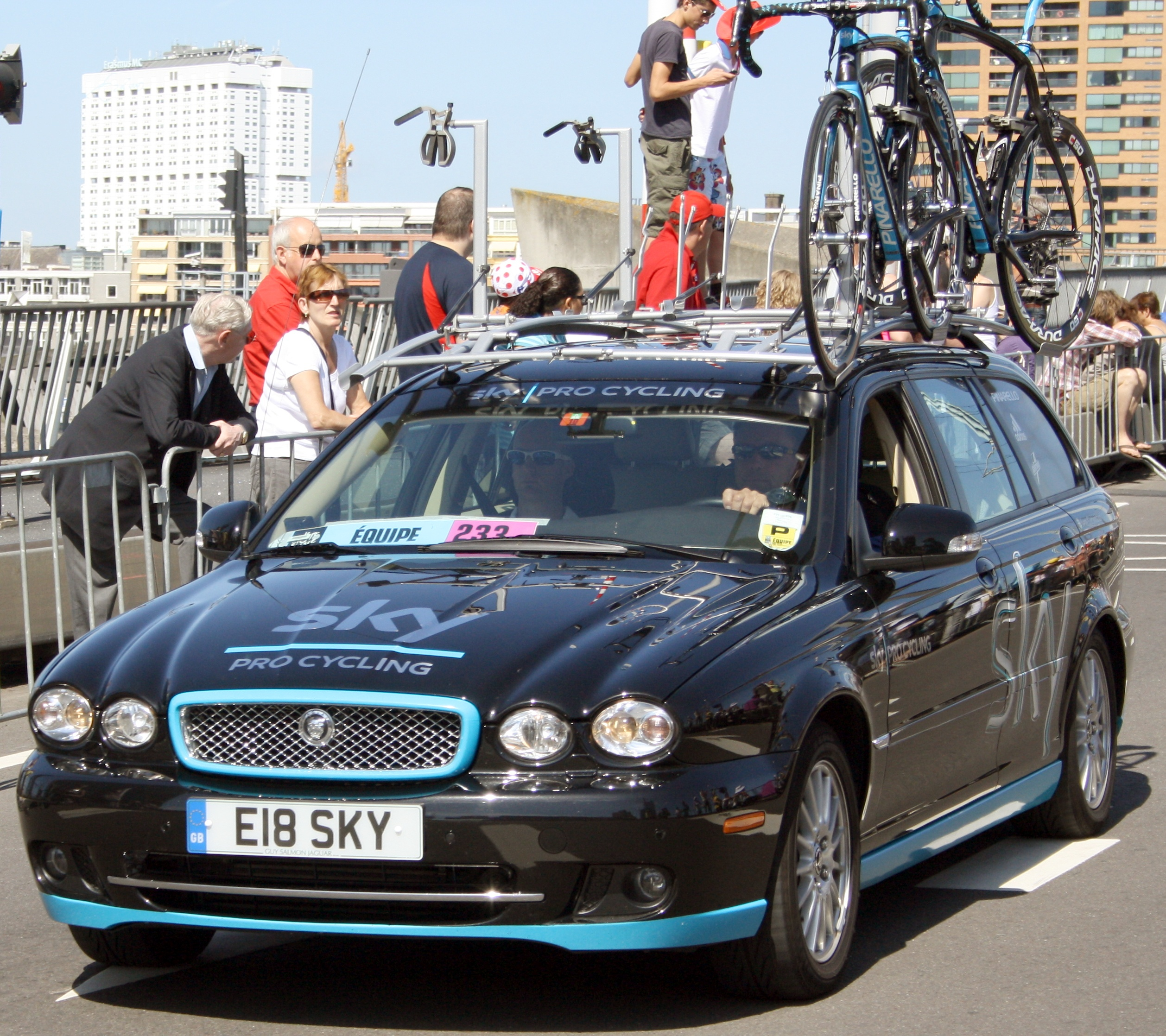 Sky team car at the start of the first stage of the 2010 Tour de France in Rotterdam